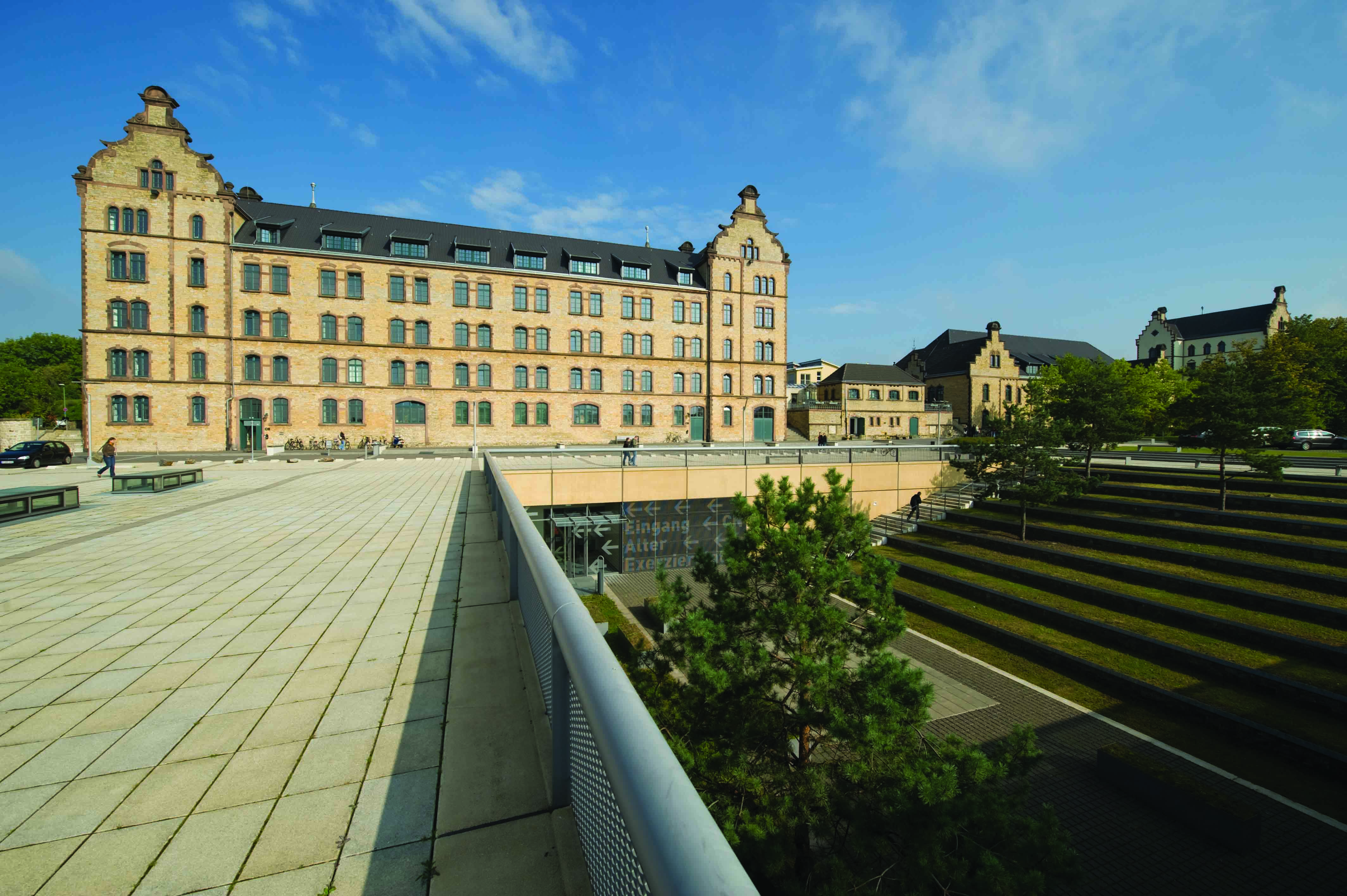 Gebäude Fakultät WiSo, Caprivistraße